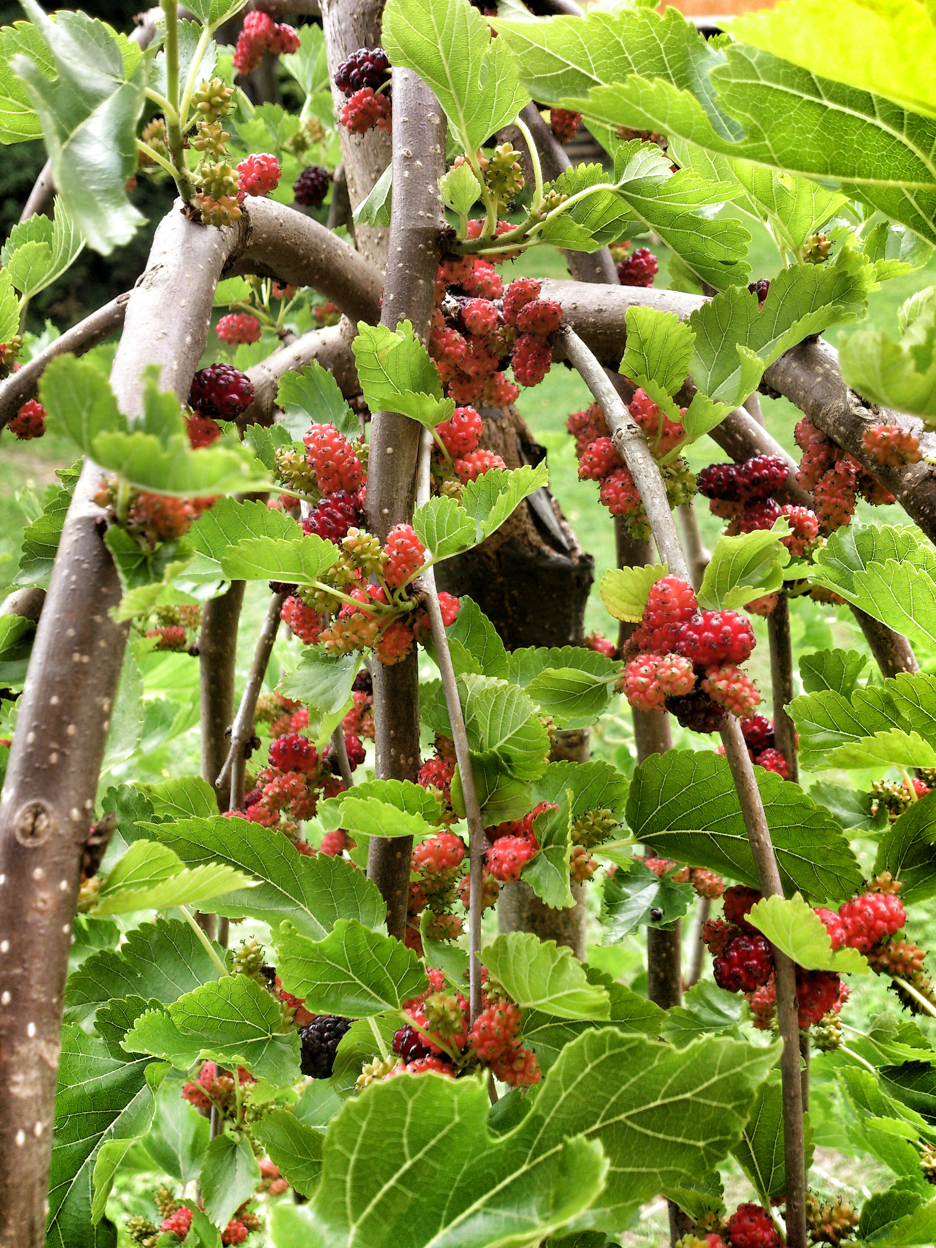 Weeping mulberry species (Morus Alba Pendula) in Mulberry Garden (Morušová zahrada) in Czech Republic, Režný Újezd